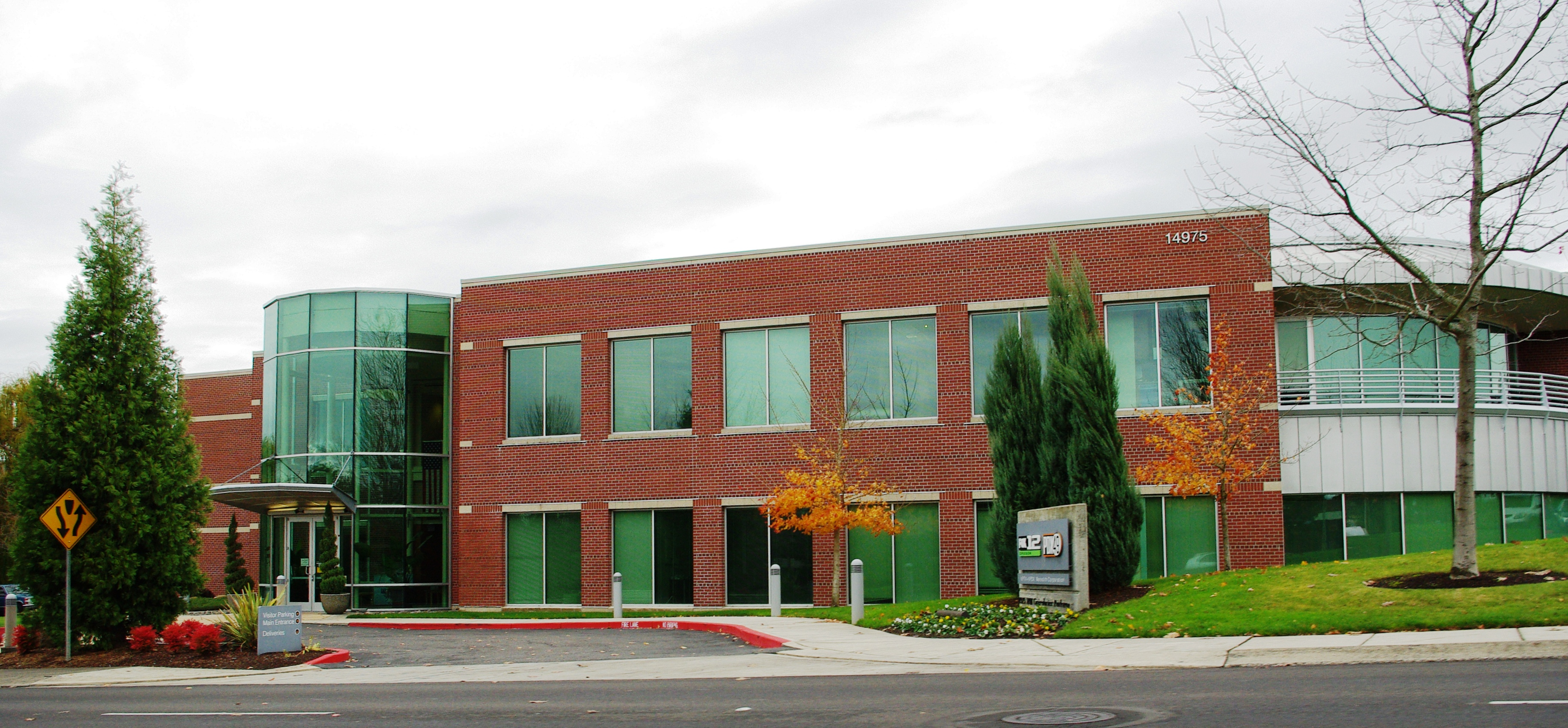 TV station KPTV, a FOX affliate for the Portland, Oregon market.